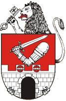 Municipal coat of arms of Loket town, Sokolov District, Czech Republic.